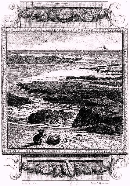 A copper engraving of La Fontaine's fable of the Rat and the Oyster from an edition of the Fables, 1883